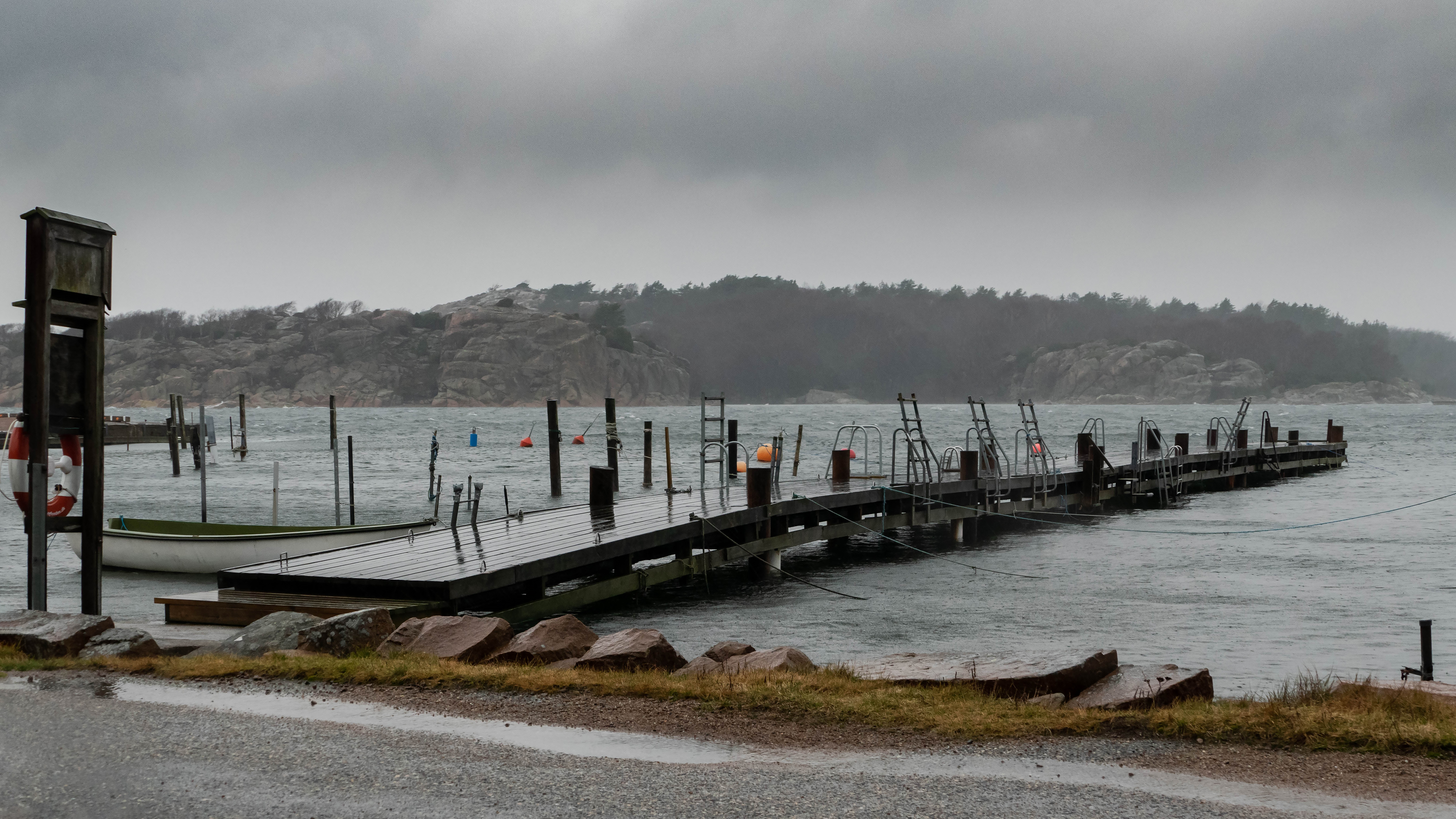 The jetty with the ladders in Govik harbor, Lysekil Municipality, Sweden, during storm Ciara 2020. The wind had pushed water into Brofjorden and the water level was around 70 cm (28 in) above normal.